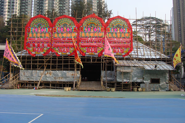 Temporary bamboo framed theatre for devotional Cantonese opera performances